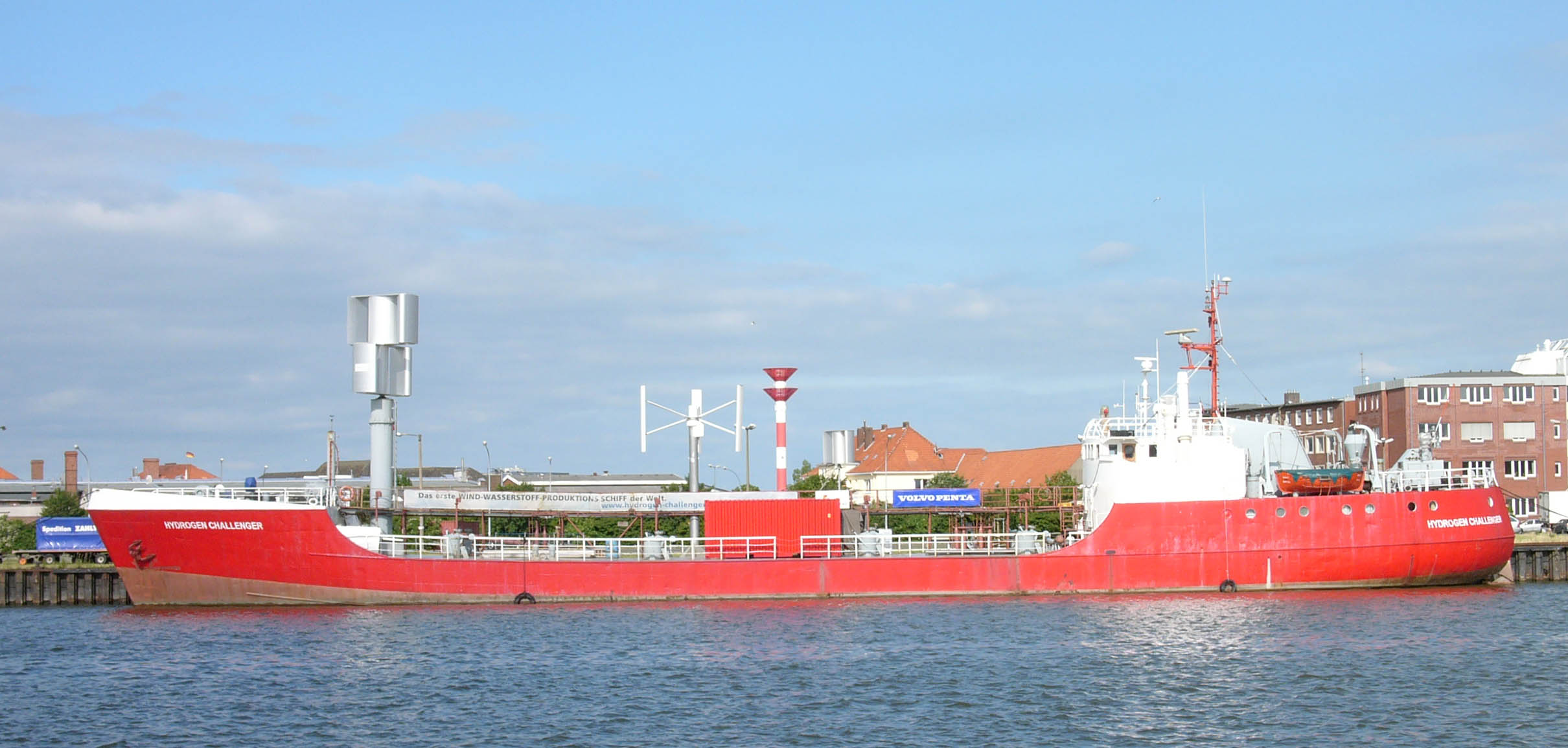 Hydrogen Challenger - a wind and hydrogen driven ship (harbor of Bremerhaven, Germany)